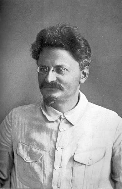 Portrait of Leon Trotsky.